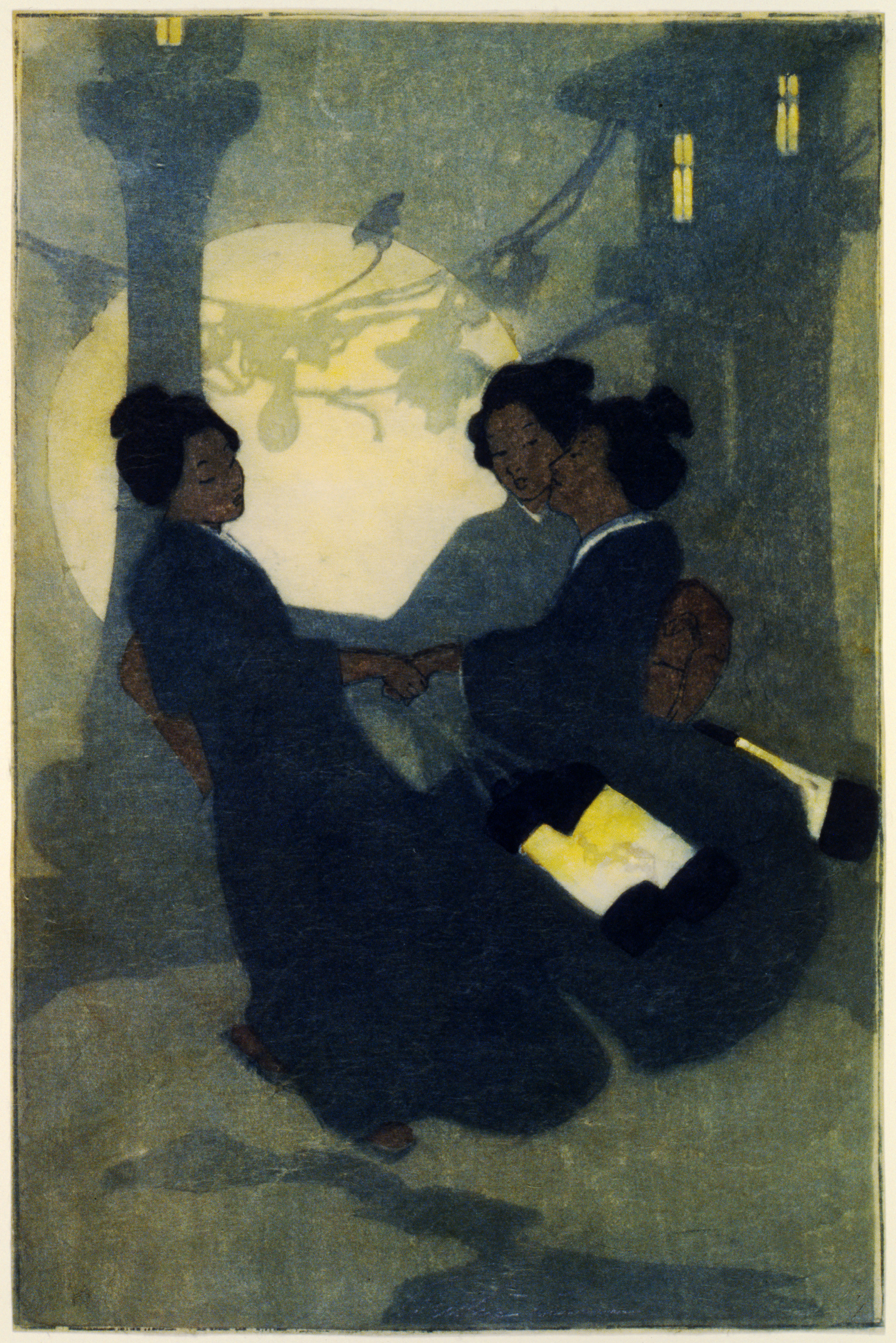 Fox women (kitsune in human form). 1 print : col. woodcut ; 32.7 x 21.8 cm., Japanese style woodcut by Bertha Boynton Lum, 1908.